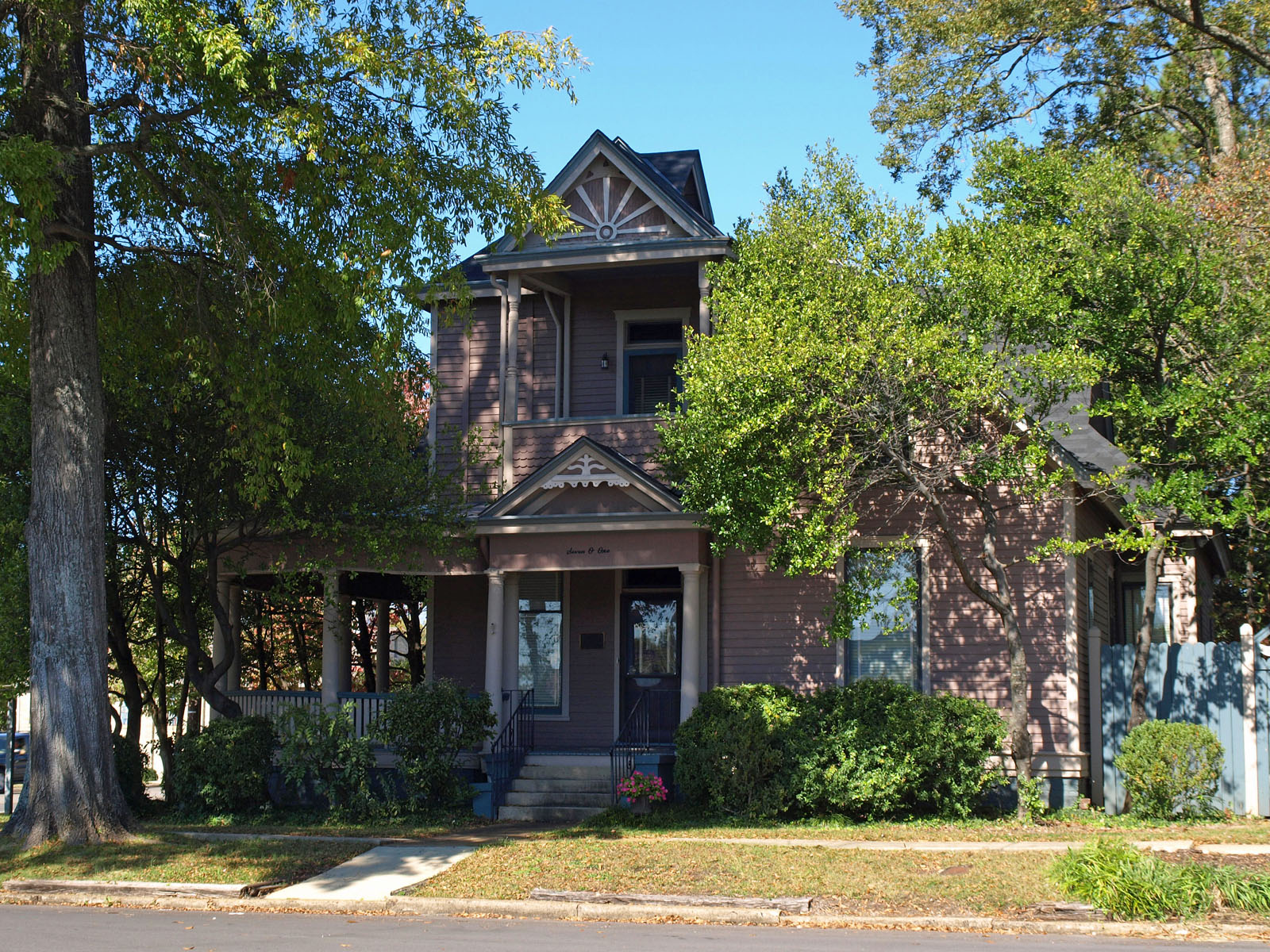 The Vaught House in Huntsville, Alabama, listed on the National Register of Historic Places.